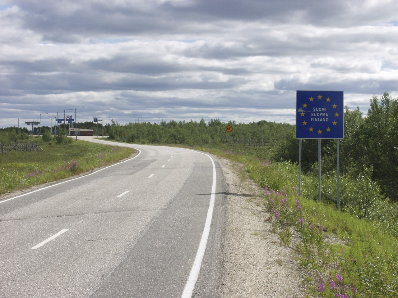 Finnish national road 93 seen from the Finnish–Norwegian border in Kivilompolo, Enontekiö.